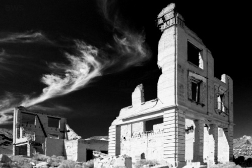 The John S. Cook and Company building in Rhyolite, Nevada, USA - a ghost town abandoned after gold mining rush ended.